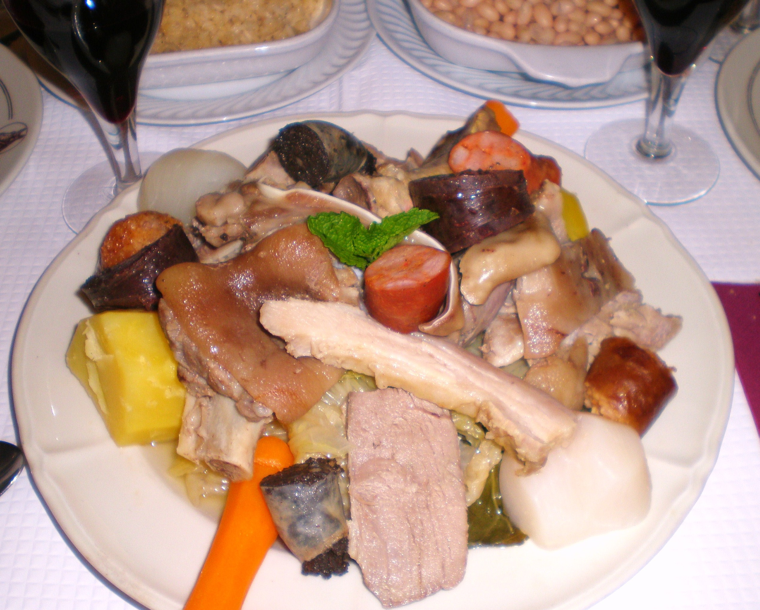 Traditional "Cozido à portuguesa" photo taken at Restaurante Cristovão, Linda-a-velha